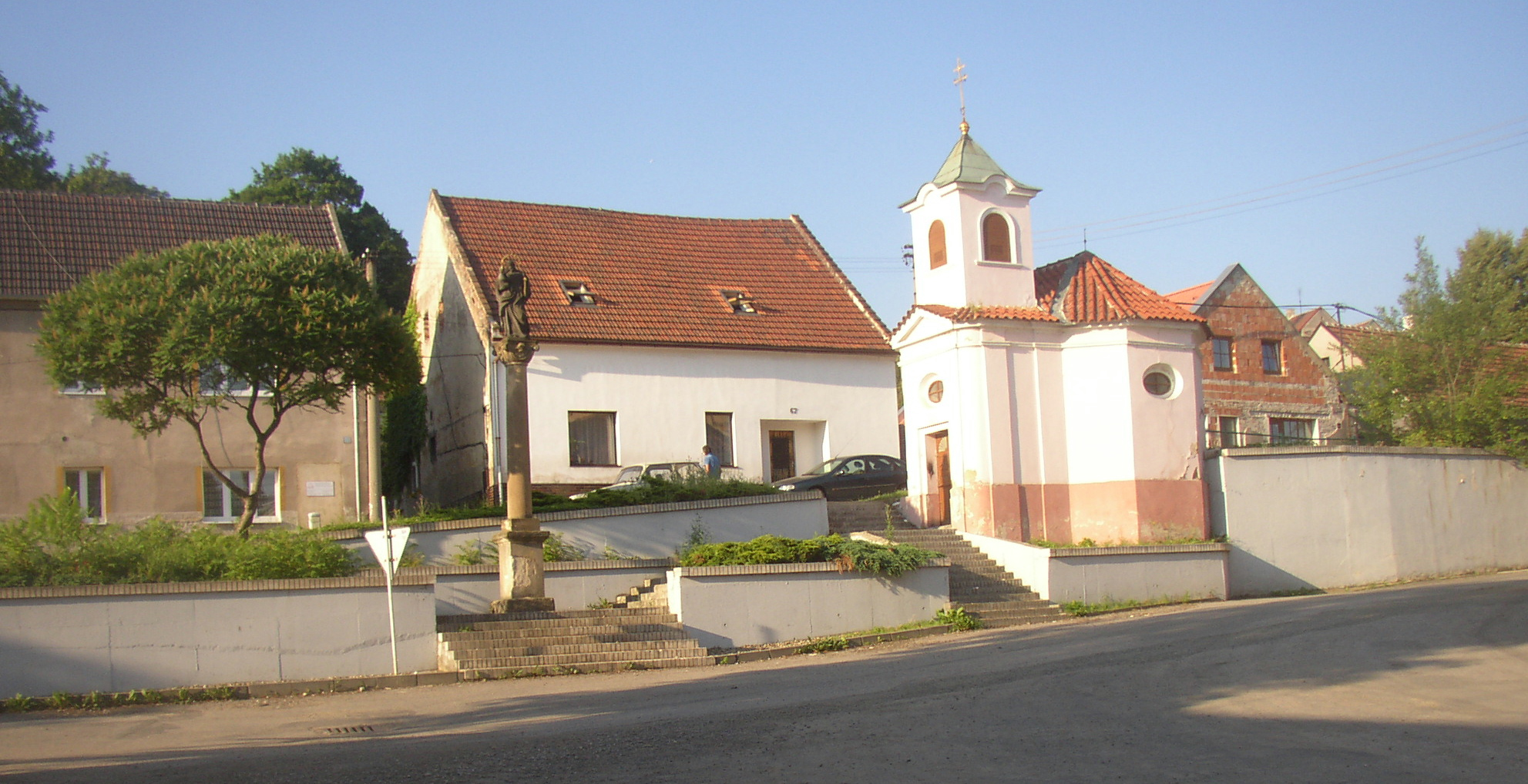 Old centre of Buštěhrad, Czech Republic. Chapel of St Mary Magdalene and an 17th century column with statue of Virgin Mary.